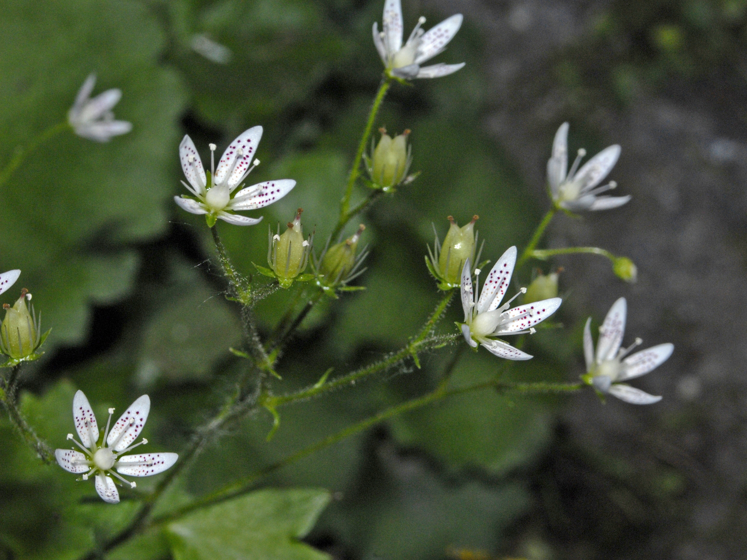 Flowers of Saxifraga rotundifolia at the Giardino Botanico Alpino Chanousia